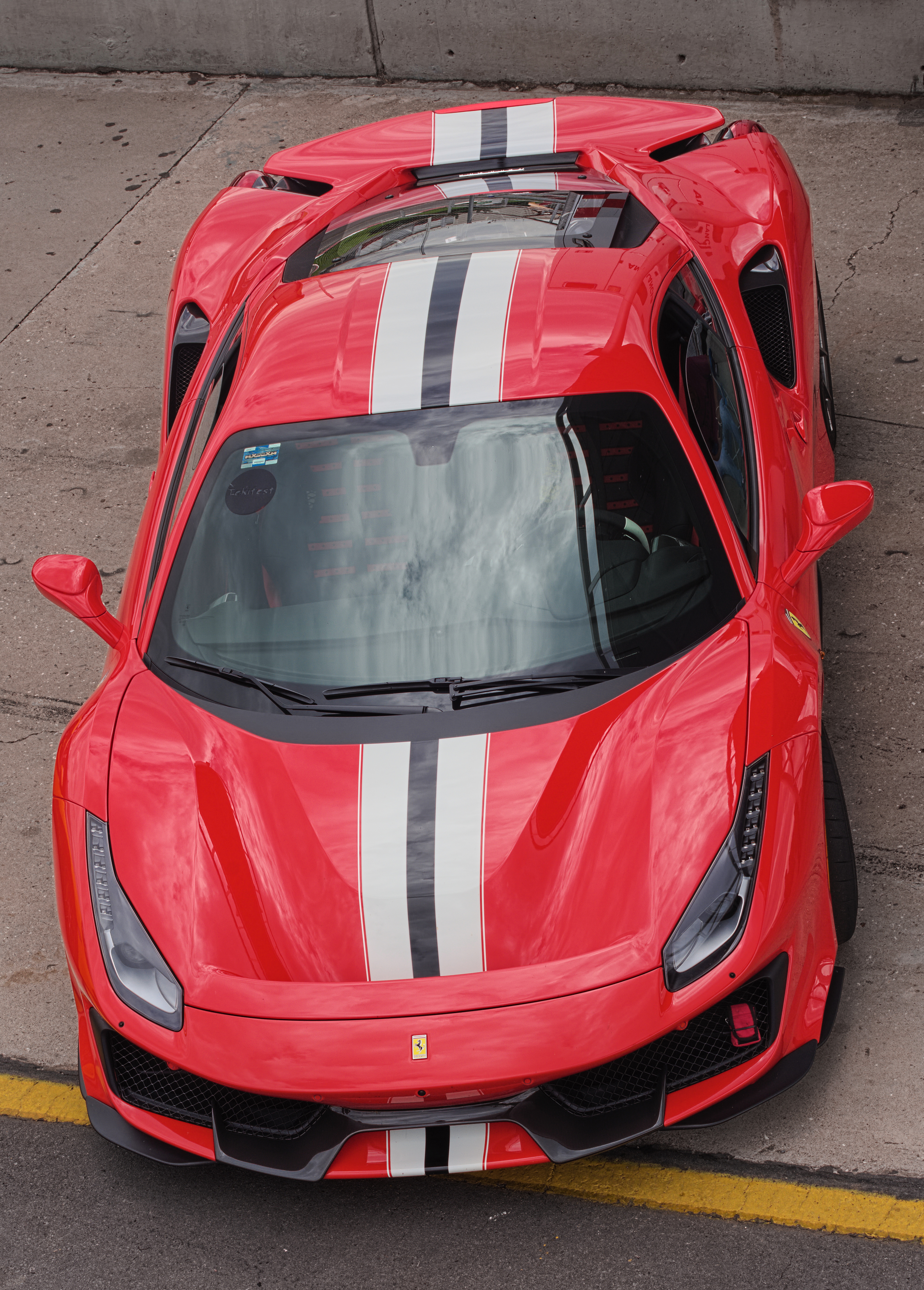 Ferrari 480, racing circuit Miguel E. Abed, Puebla, Mexico